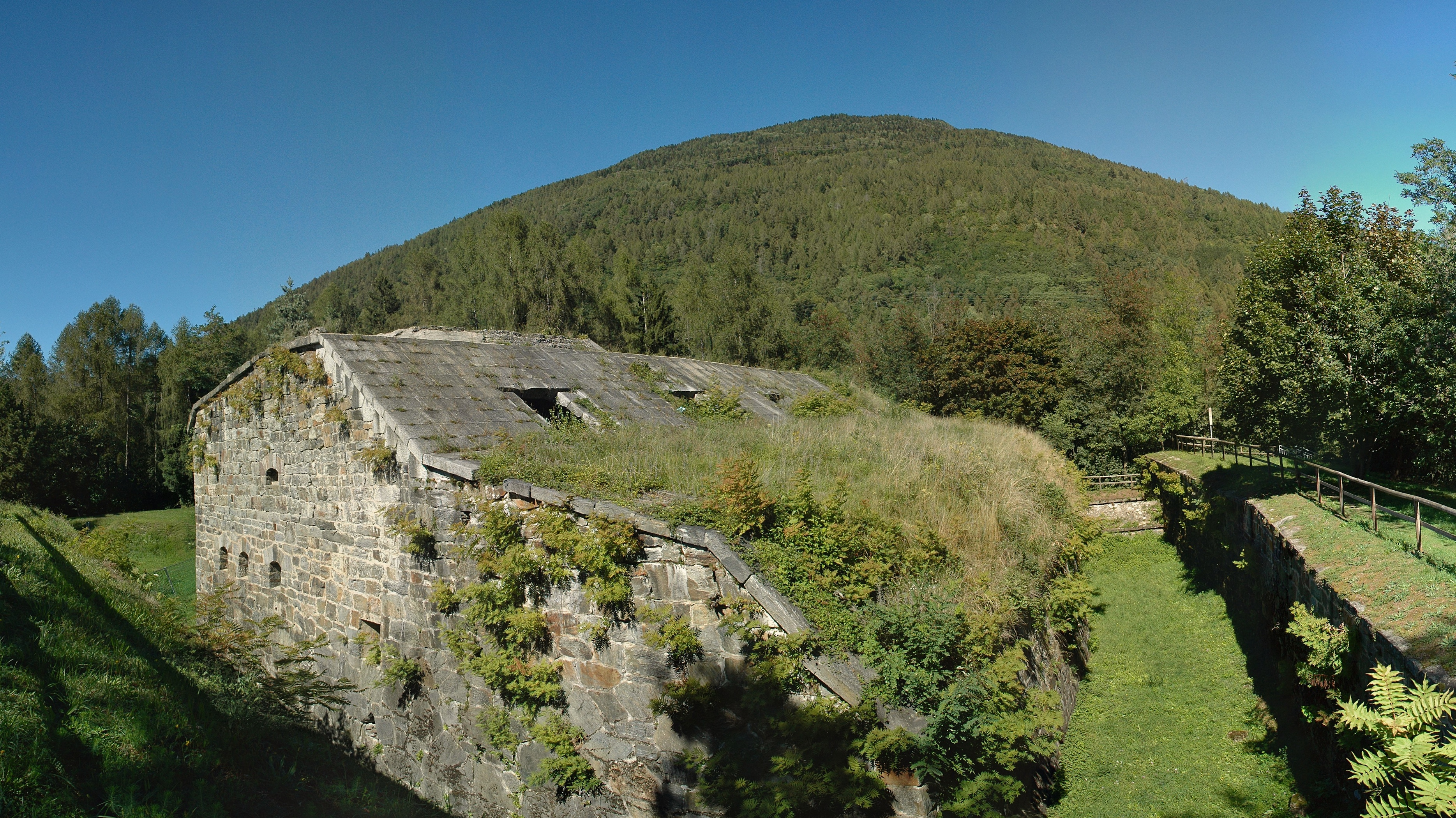 Fort (Werk) Colle delle Benne was errected 1880-1882 north of Lago di Levico (Lake Levico) by Austrian-Hungarian military to watch the valley Valsugana and it is situated vice versa fort Tenna at the south of the lake.